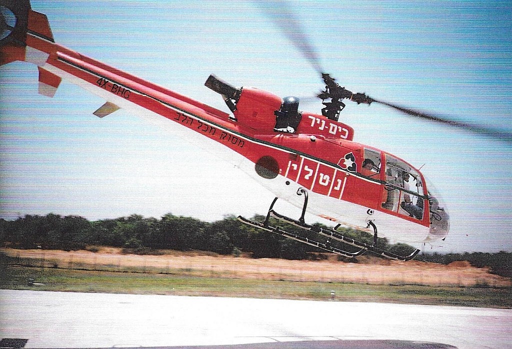 4X-BHG, Aerospatiale SA341G Gazelle, of Chim-Avir Aviation